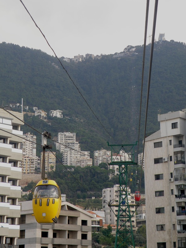 jounieh